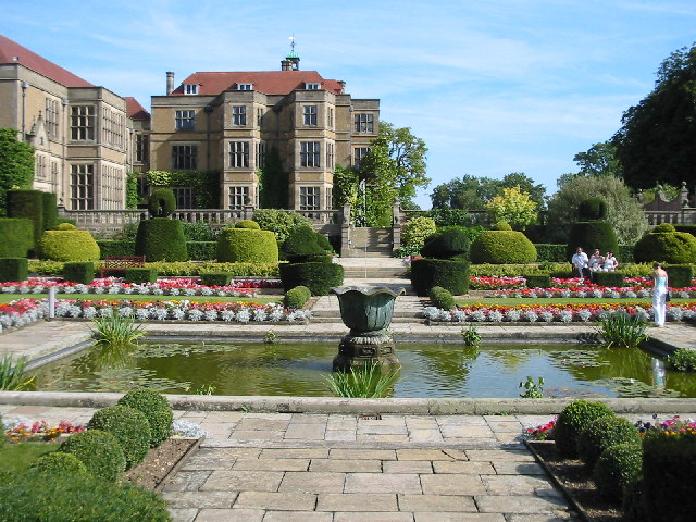 Gardens and pond at Fanhams Hall, near Ware, Herts. Popular wedding reception venue and conference centre, set in 27 acres of gardens. Until recently it was owned by Sainsbury's.